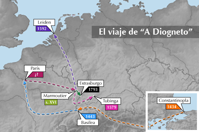 Map of the route of the Epistle to Diognetus. Spanish version. Based on the map Europe Topography Map by San Jose. Mapa del viaje de la epístola "A Diogneto". Versión española. Basado en el mapa topográfico de europa realizado por San Jose.